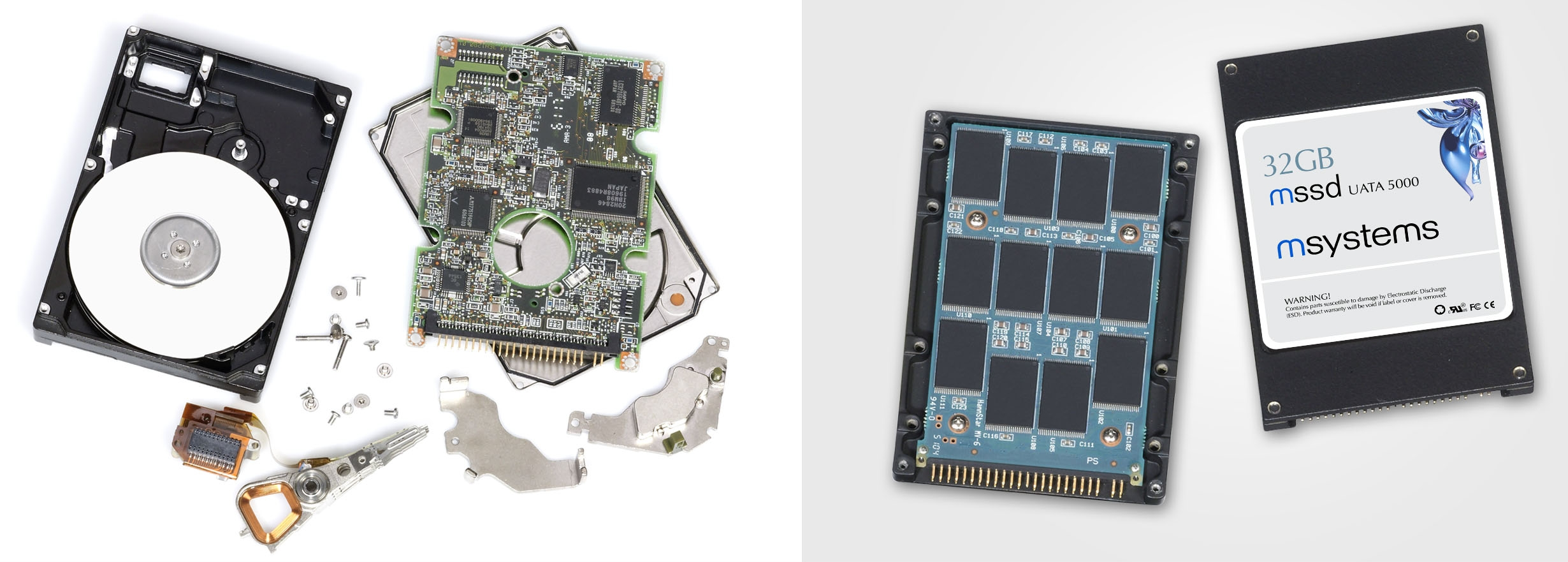 msystems